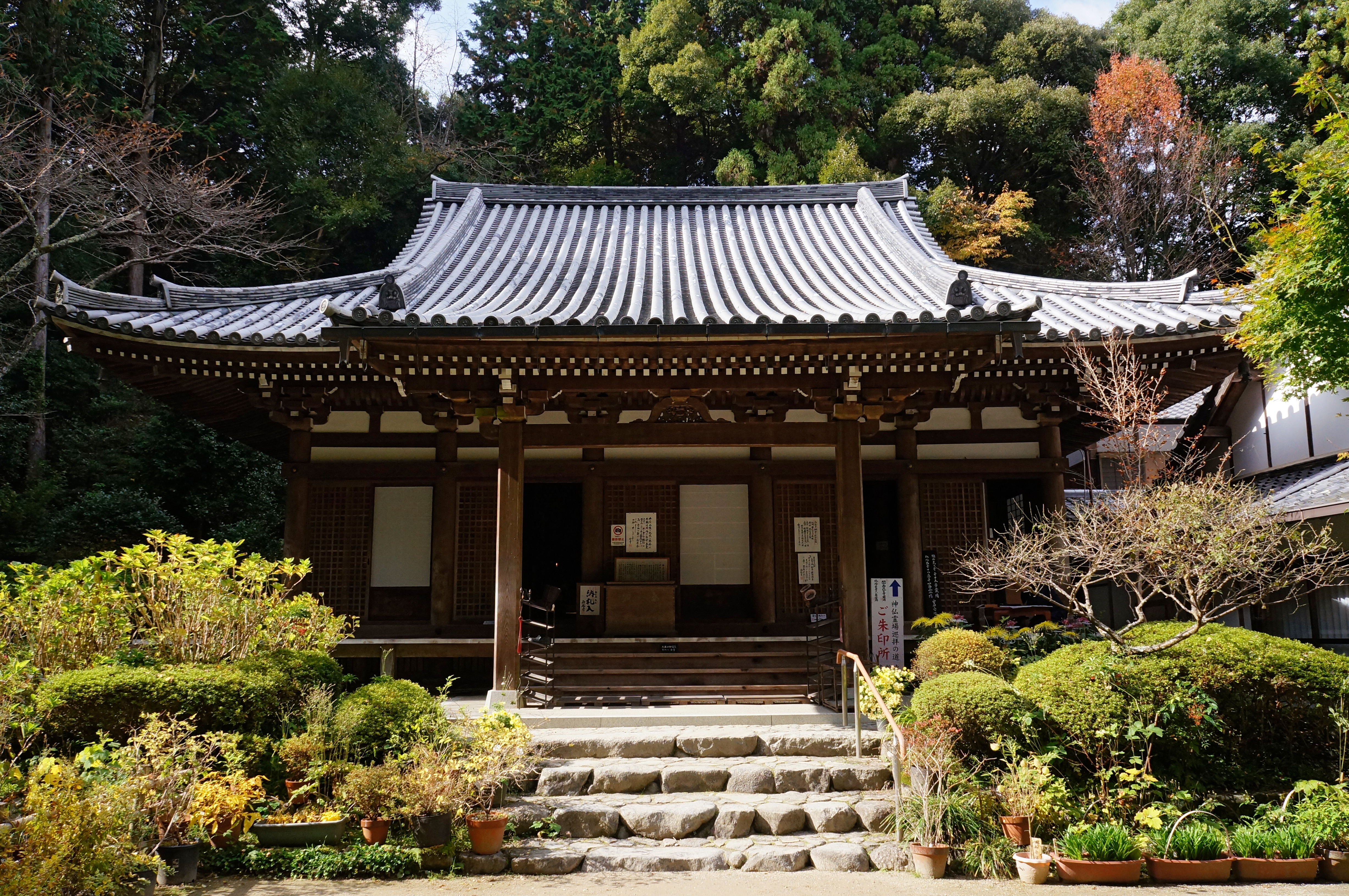 Gansen-ji in Kizugawa, Kyoto prefecture, Japan